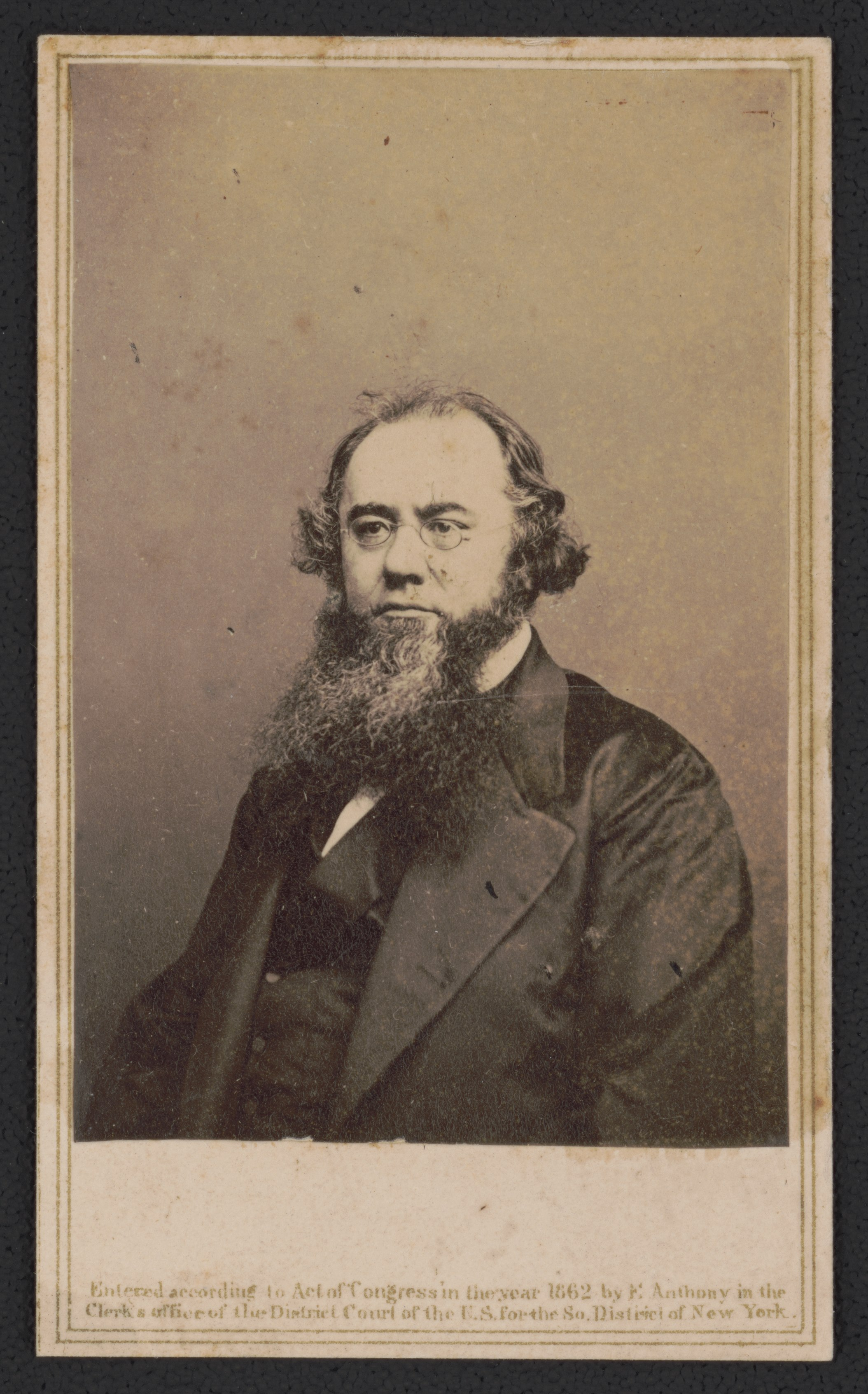 Title: Secretary of War Edwin Stanton Abstract/medium: 1 photograph : albumen print on card mount ; mount 11 x 7 cm (carte de visite format)